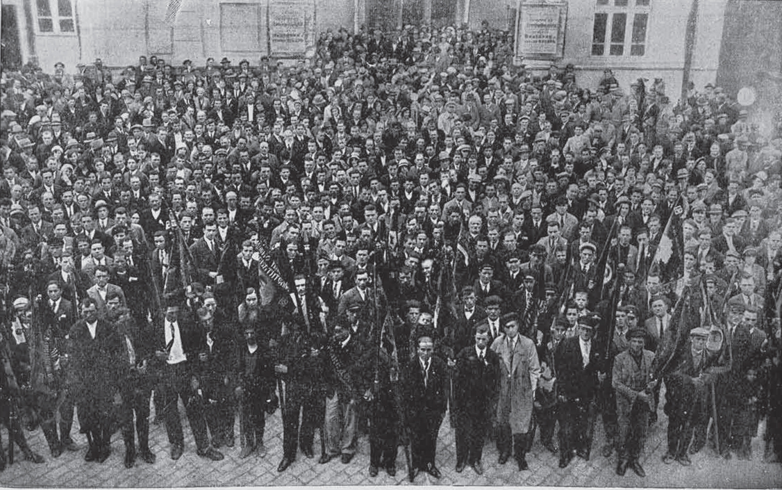 7th youth macedonian congress in Sofia